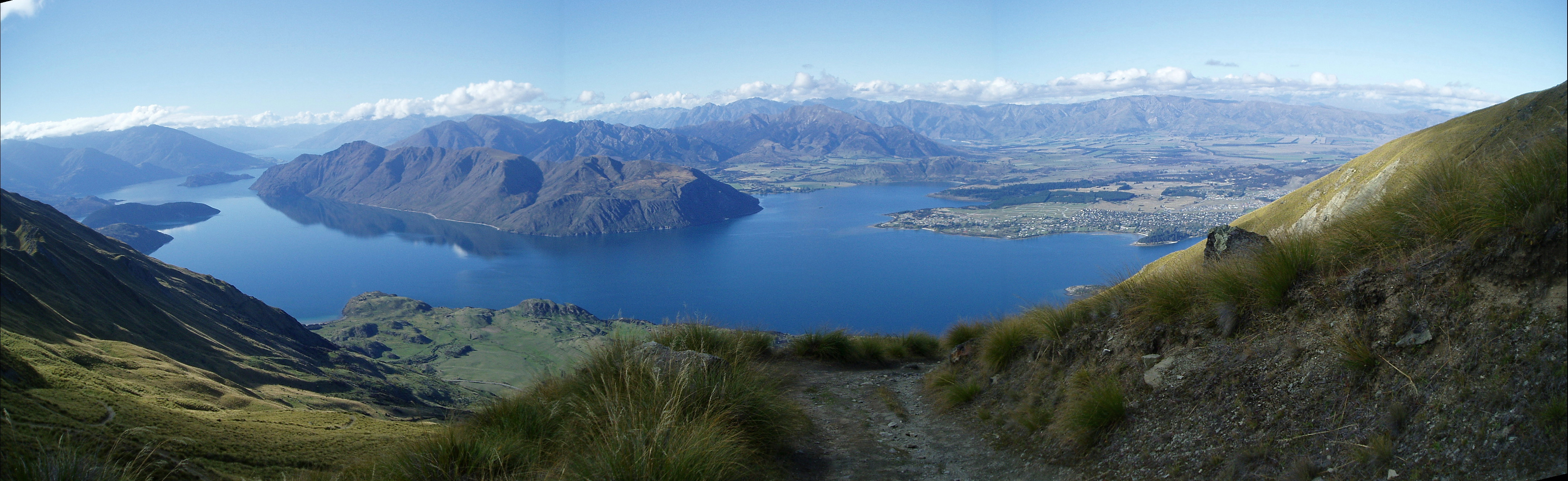 View from Roys Peak